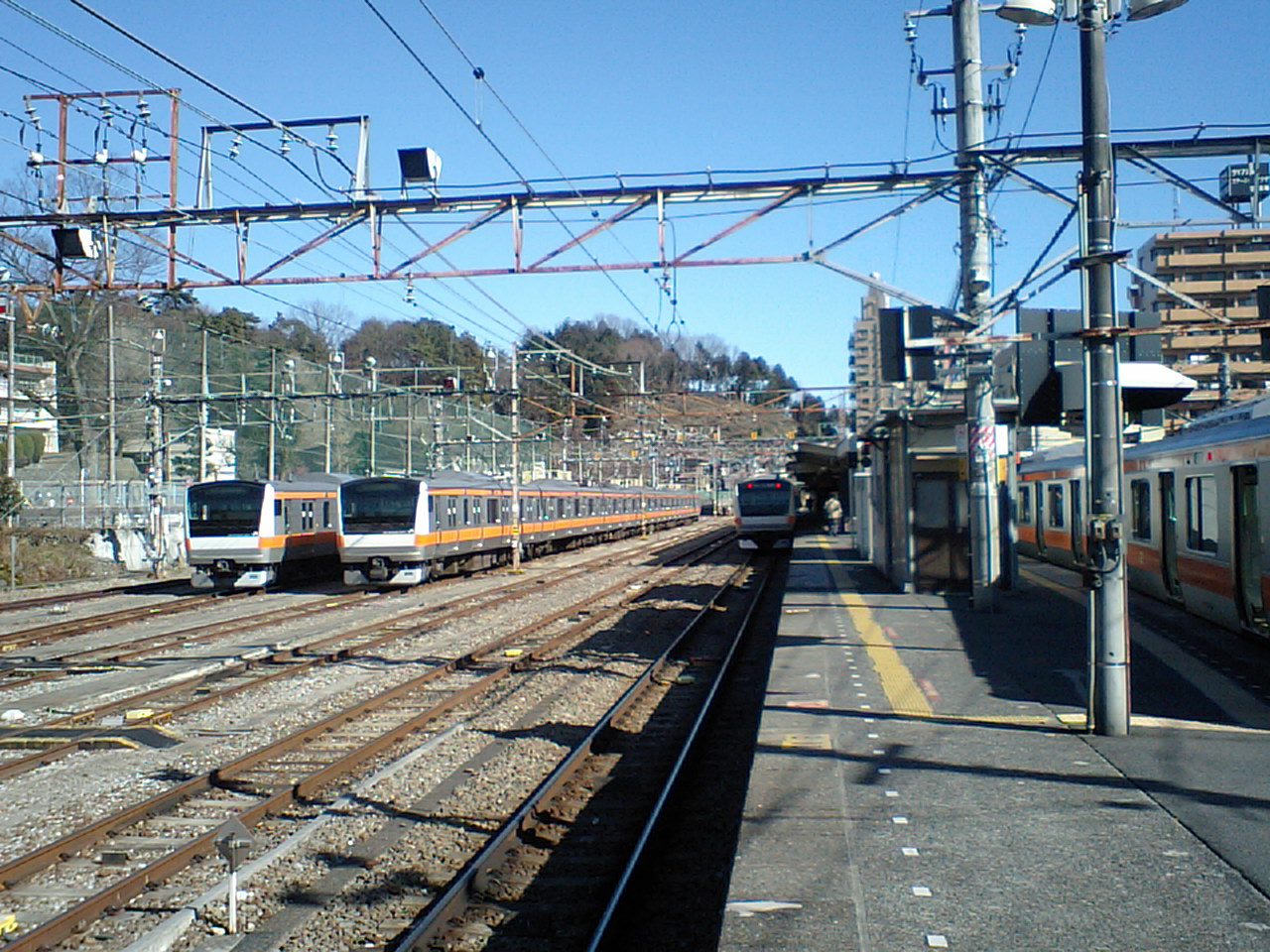 Ōme Station and Depot